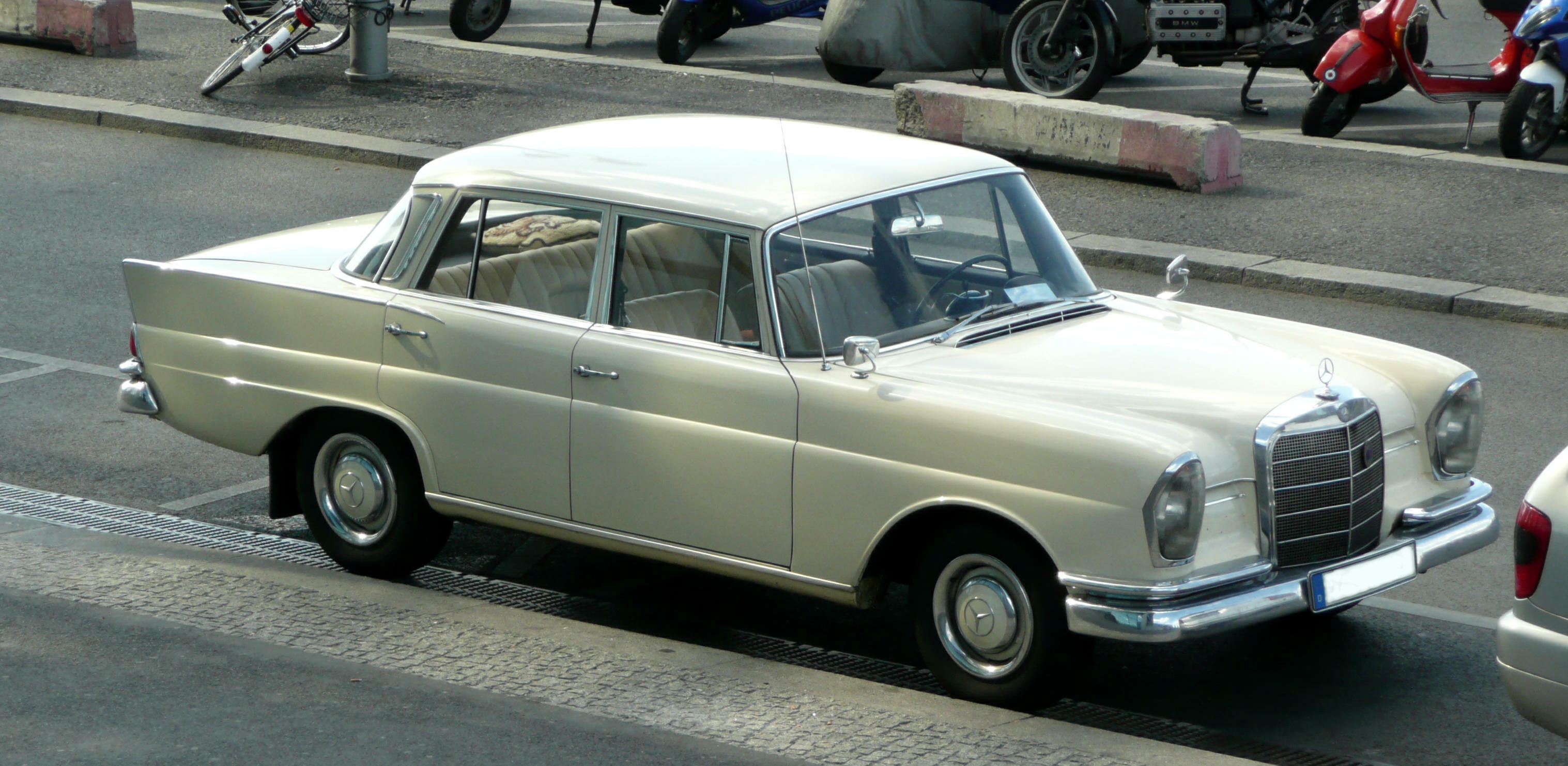 This image shows a Mercedes-Benz 220 S (W111).